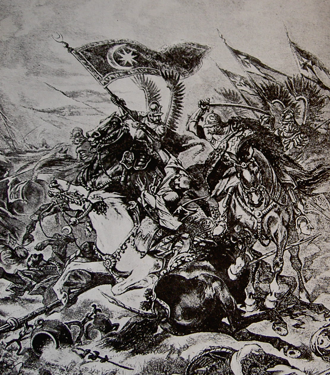 Battle of Kahlenberg 1683 by Juliusz Kossak